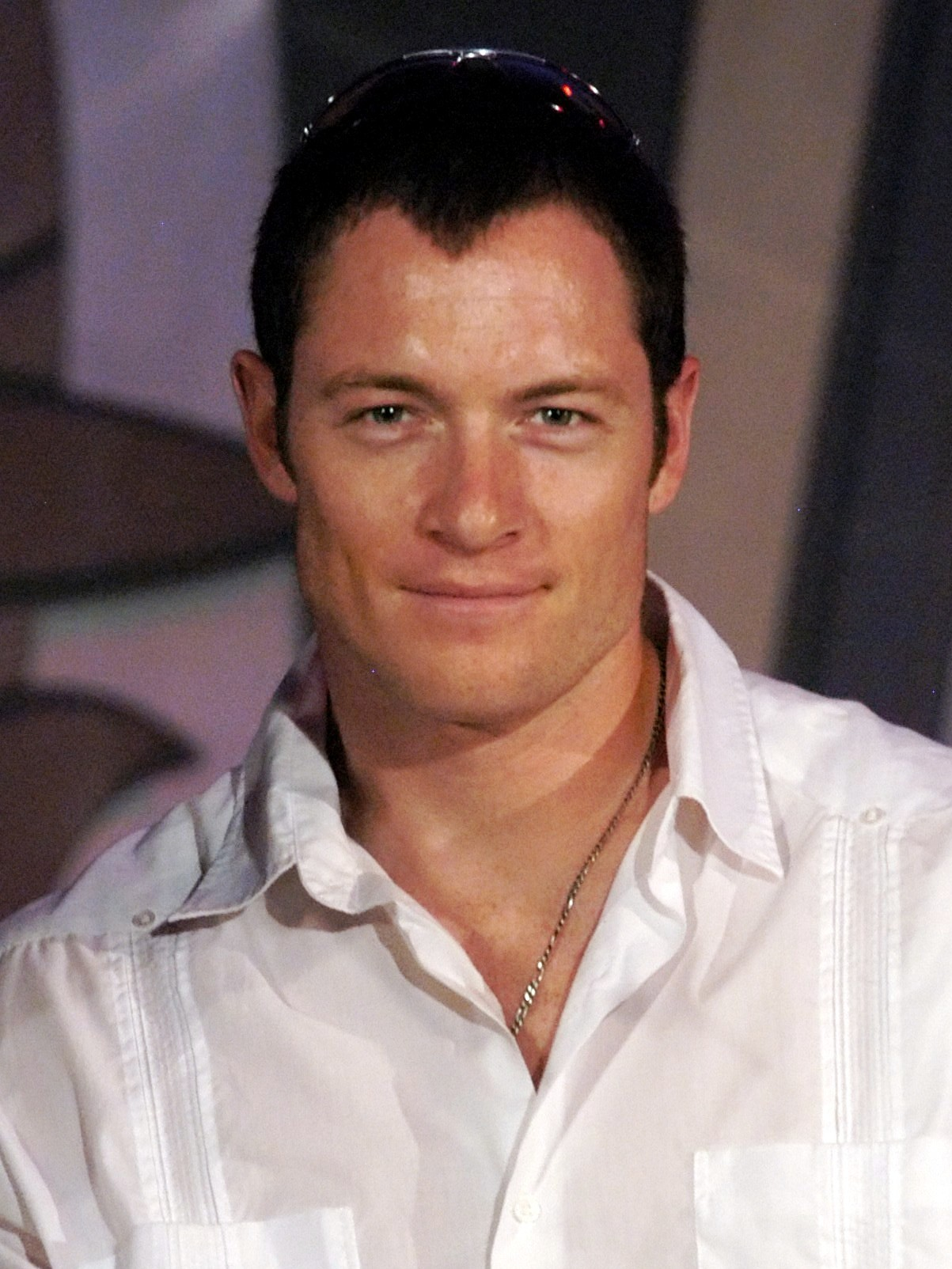 Tahmoh Penikett, Canadian actor who portrays Helo in the 2004 reimagining of Battlestar Galactica. Taken at a Sci-fi convention